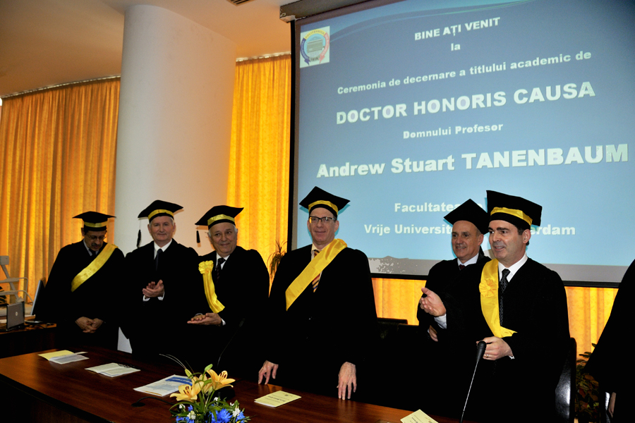 Andrew Tanenbaum's honorary doctorate in Bucharest (4th. from left)